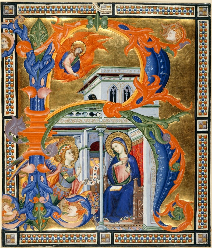 Don Silvestro dei Gherarducci - Gradual from Santa Maria degli Angeli - folio 60 - The Annunciation in an Initial R (British Library, Add MS 35254 C)